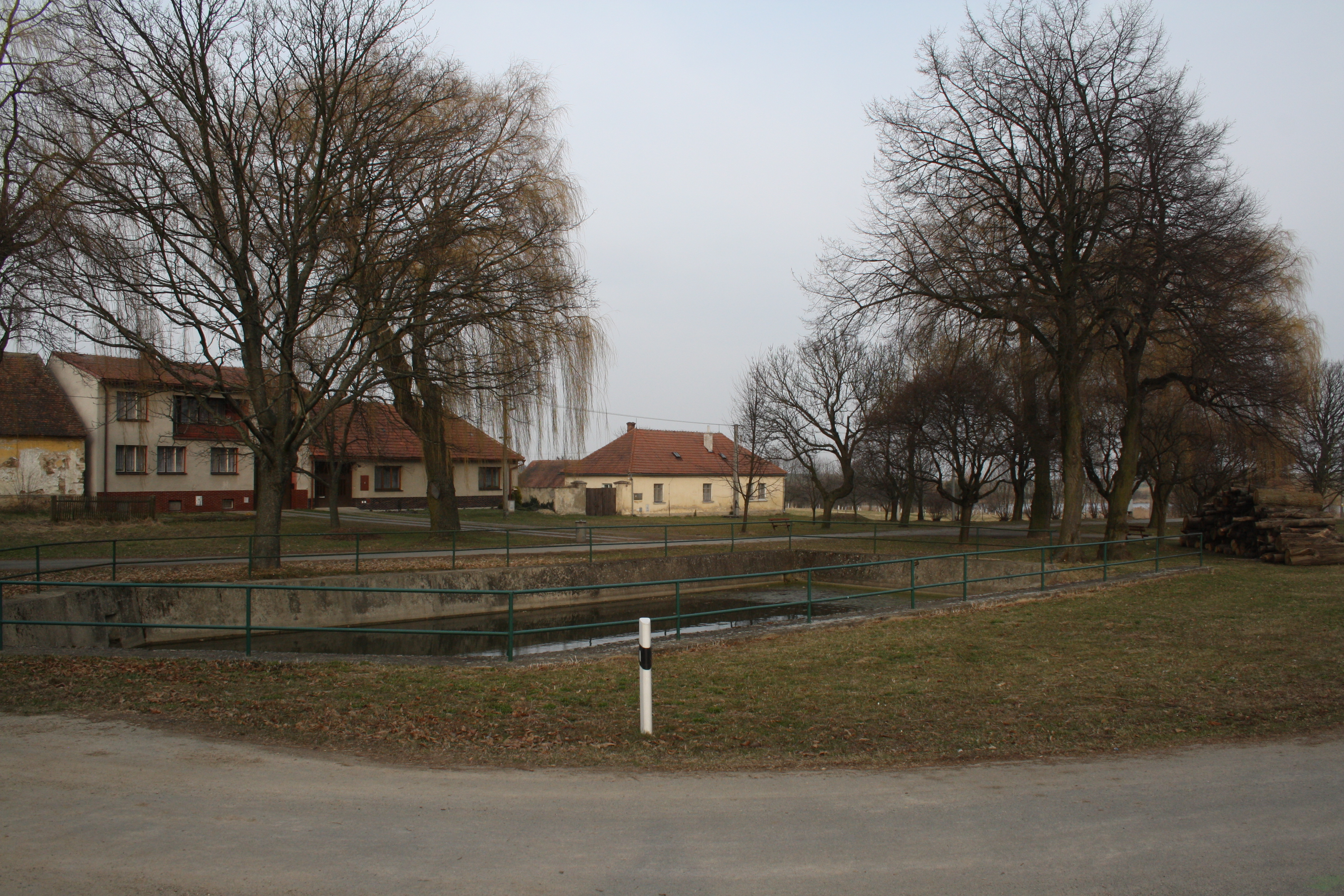 Pond and Square in Zárubice.